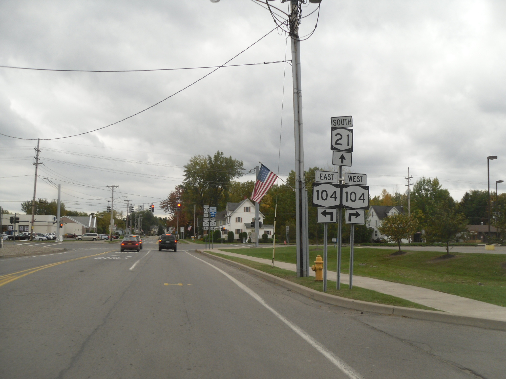 Approaching the current day northern terminus of New York State Route 21 on its former extension through Williamson.